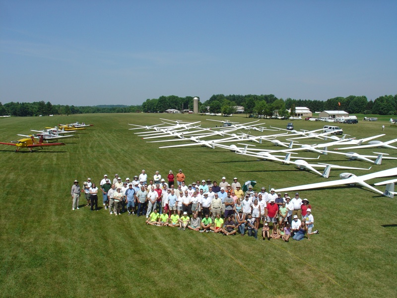 Pilots, support crews, volunteers, tow planes and gliders of the 2007 Standard Class Nationals, U.S.A.